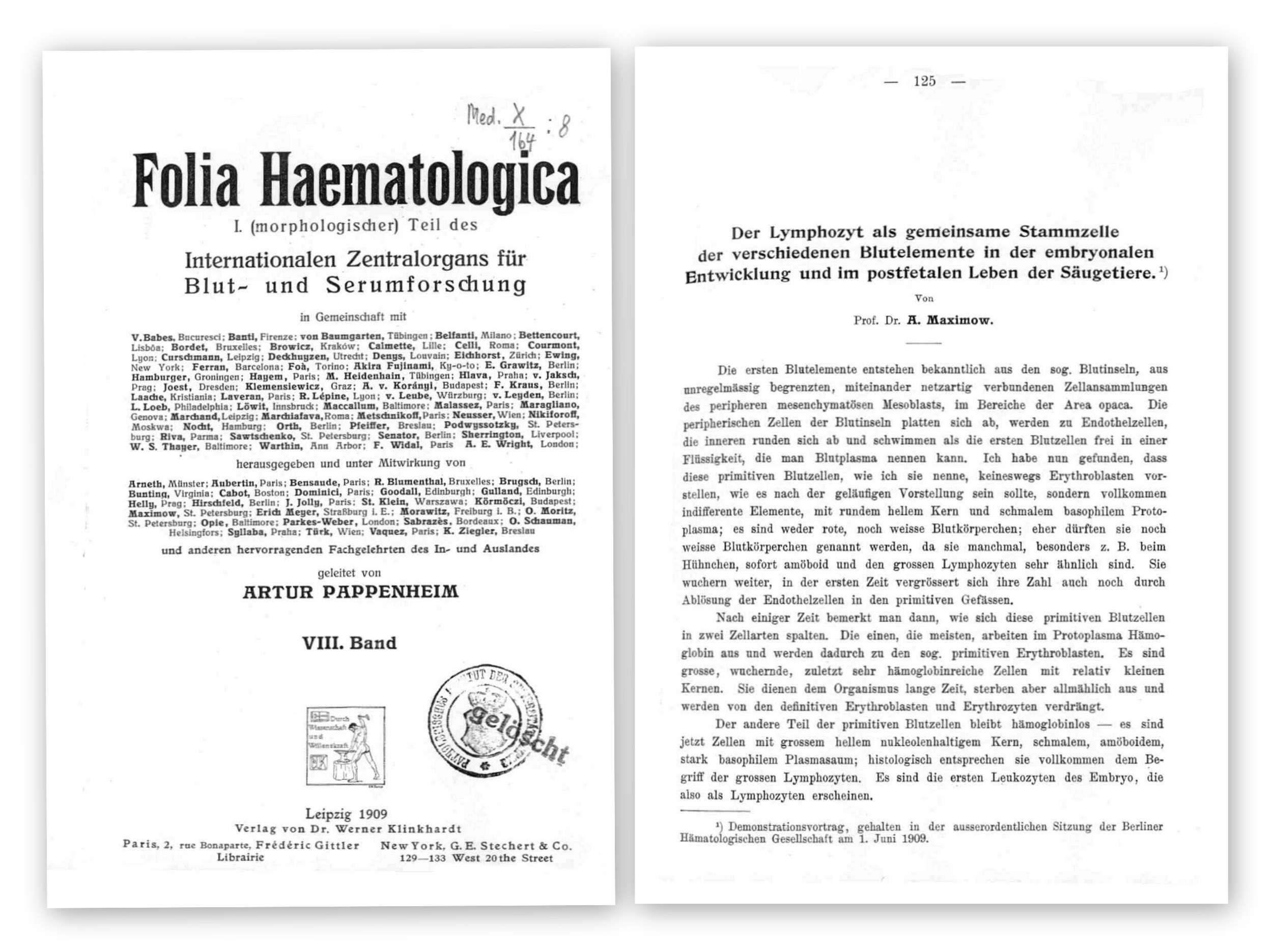 An article of Alexander A. Maximow: The Lymphocyte as a stem cell common to different blood elements in embryonic development and during the post-fetal life of mammals (1909). Originally in